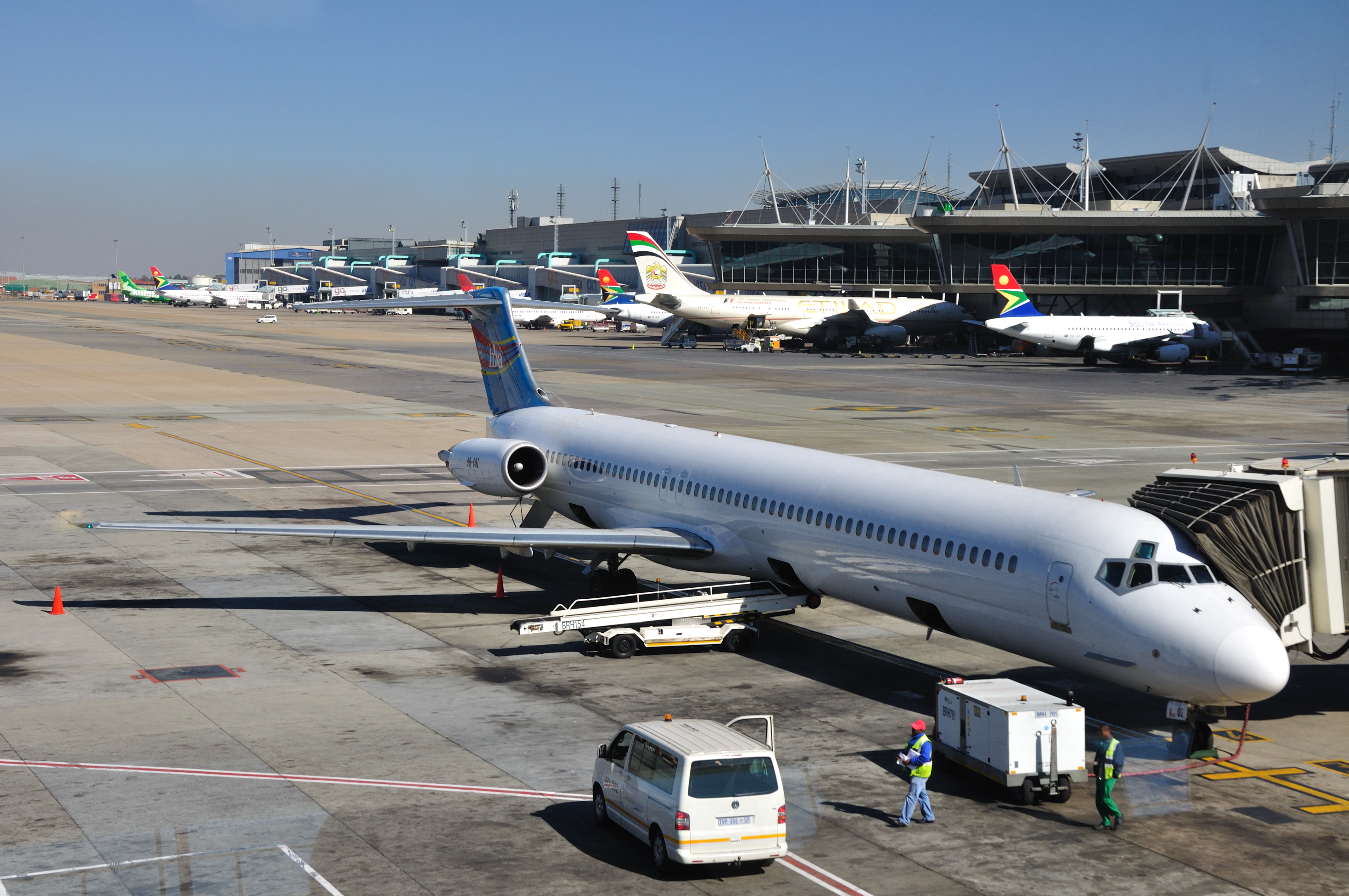 South Africa. Hewa Bora Airways MD-82 aircraft (9Q-COZ) at OR Tambo International Airport